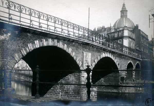 Lille : Pont-neuf (New bridge)- dimensions : 11,9 x 16,8 cm.